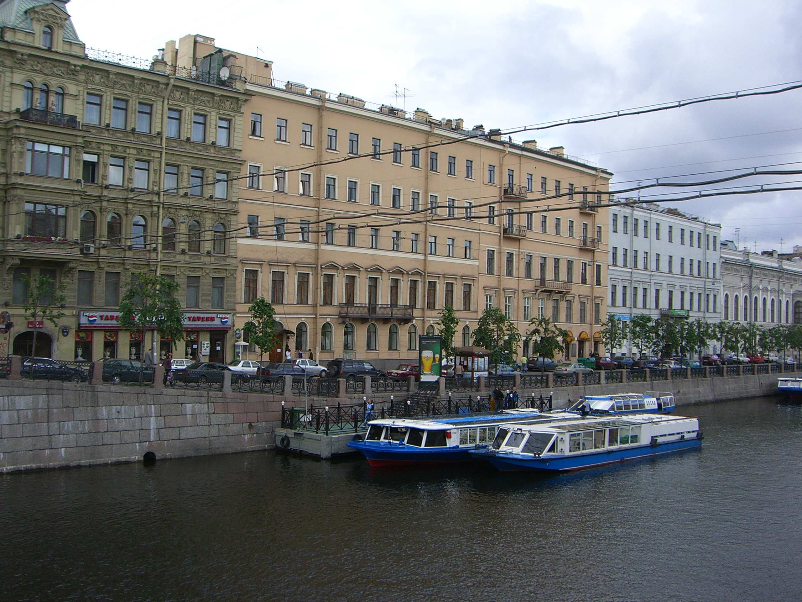 St. Petersburg Department of Steklov Institute of Mathematics of Russian Academy of Sciences, located at 27 Fontanka Embankment in Saint Petersburg, Russia